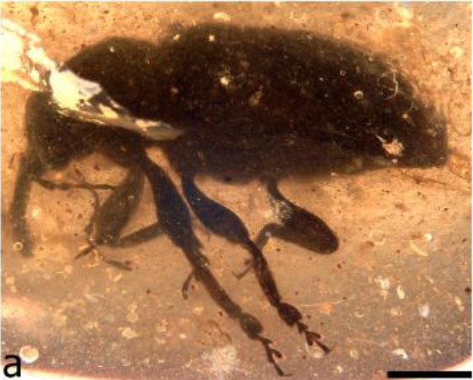 Burmophyletis beloides (syn Platychirus beloides), holotype. Habitus, left lateral (a) Scale bar: 1.0 mm.